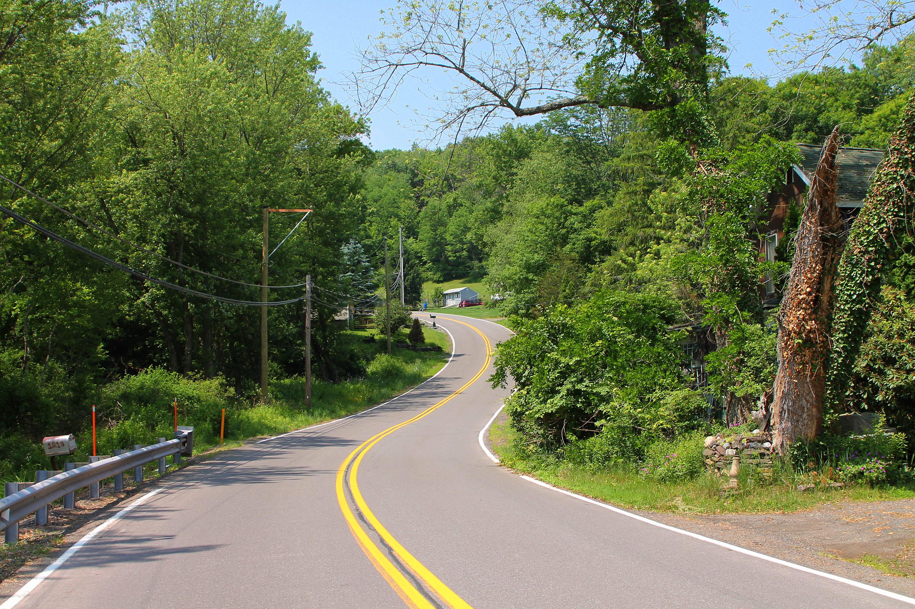 Outlet-Loyalville Road in Lake Township, Luzerne County, Pennsylvania